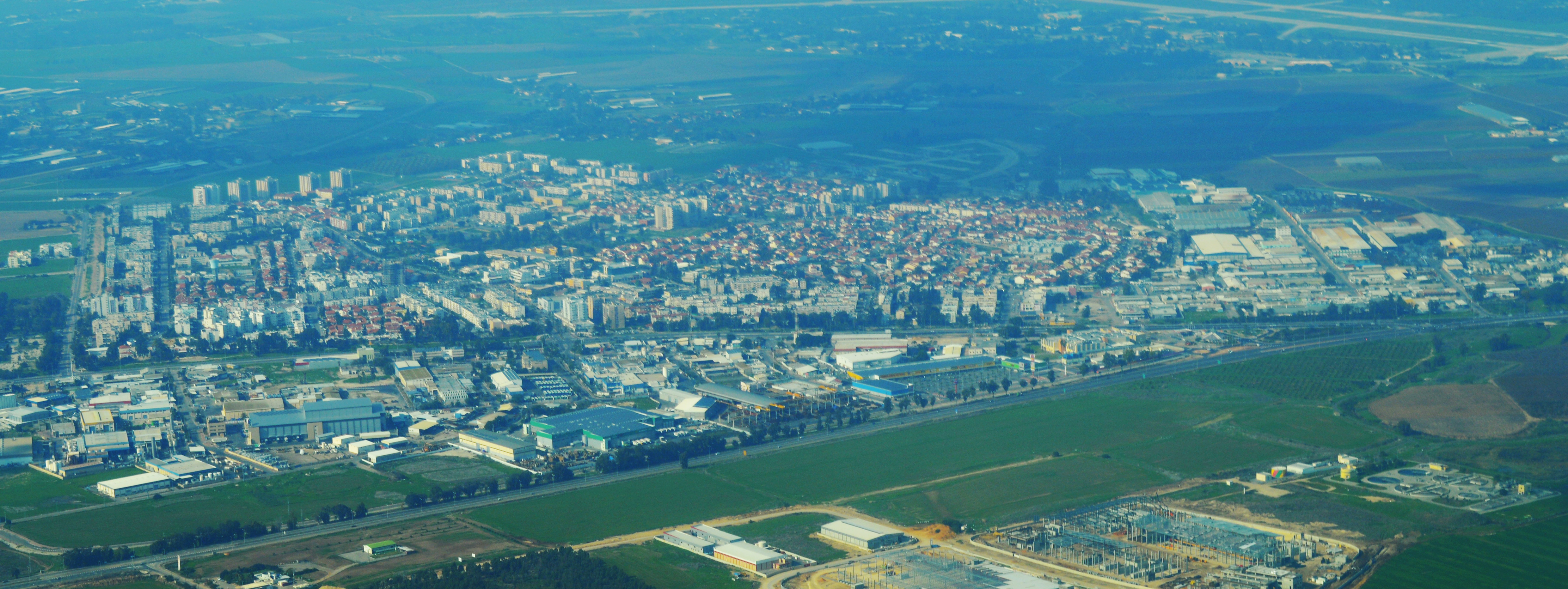 Kiryat Malakhi Aerial View